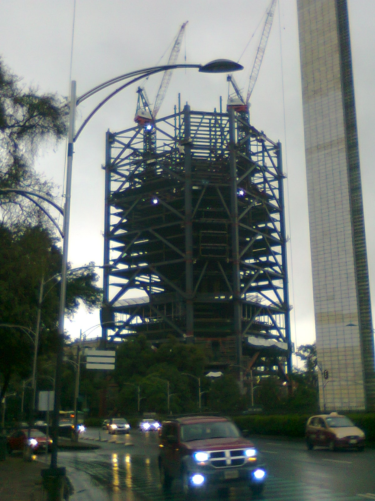 Torre Bnacomr